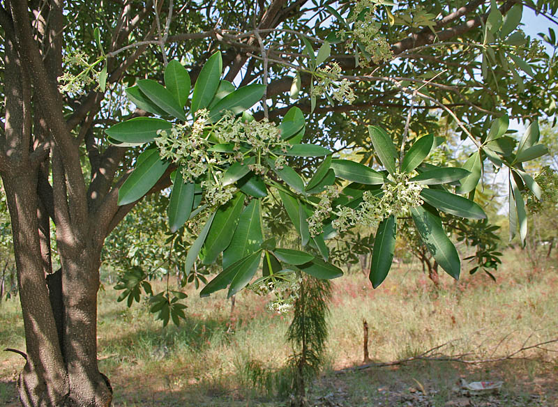 Saptaparni/ Blackboard tree/ Indian devil tree/ Ditabark/ Milkwood pine/ White cheesewood/ Pulai/ Chhatim Alstonia scholaris in Hyderabad, India.